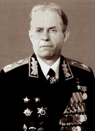 Shrunk and cropped photograph of Marshal Sergey Akhromeyev, Chief of the General Staff of the Soviet Armed Forces from 1984 to 1989.